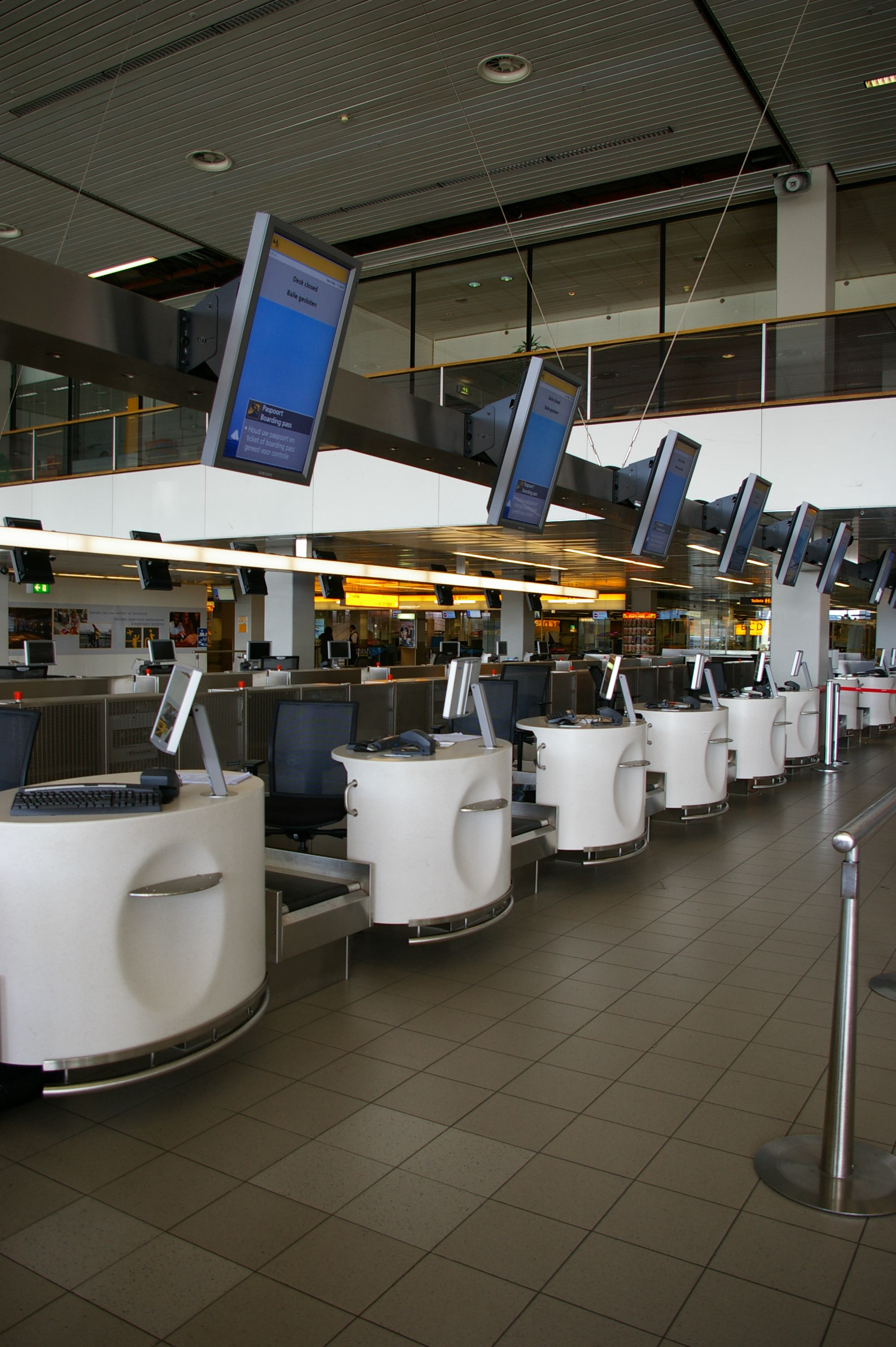 Deserted check-in stations as Schiphol Airport, Amsterdam, due to the air travel disruption after the 2010 Eyjafjallajökull eruption.